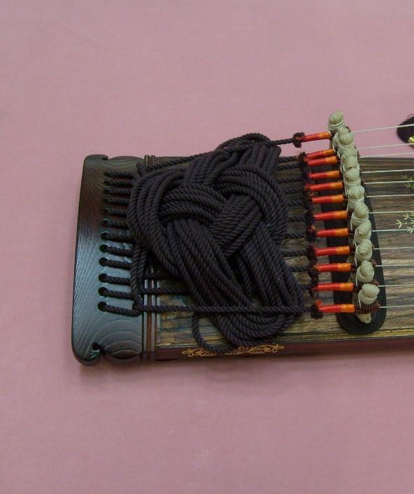 Tuning pegs of a 12-stringed sanjo gayageum, a traditional Korean zither, at an exhibit at Busan Station, Busan, South Korea